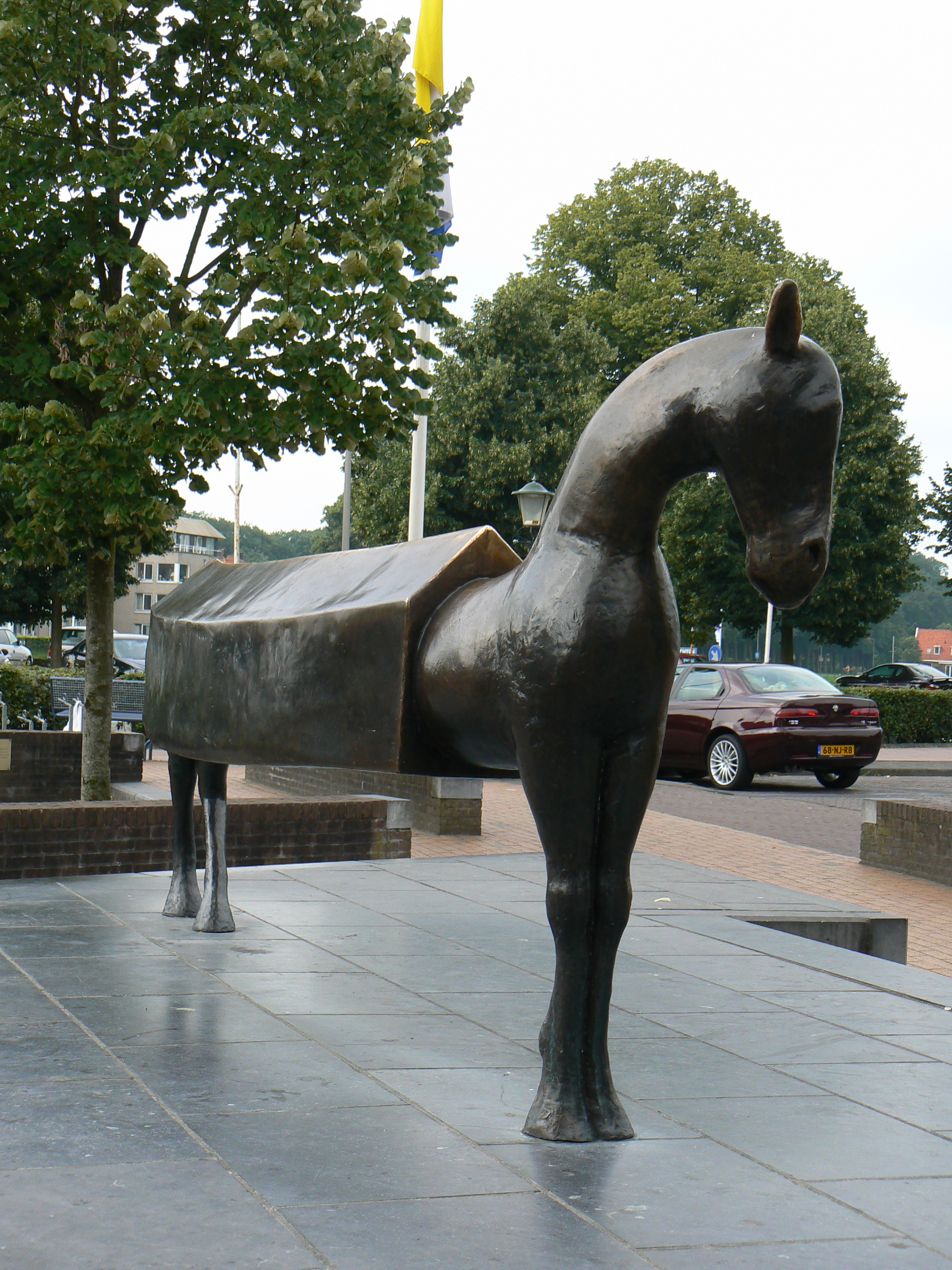 Sculpture: Het zwarte paard (1999) by Iris le Rütte in Ommen/The Netherlands